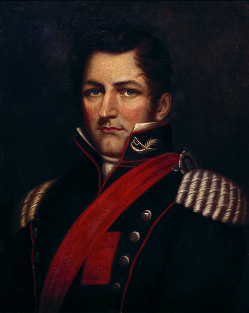 Juan Manuel de Rosas, Argentine dictator.